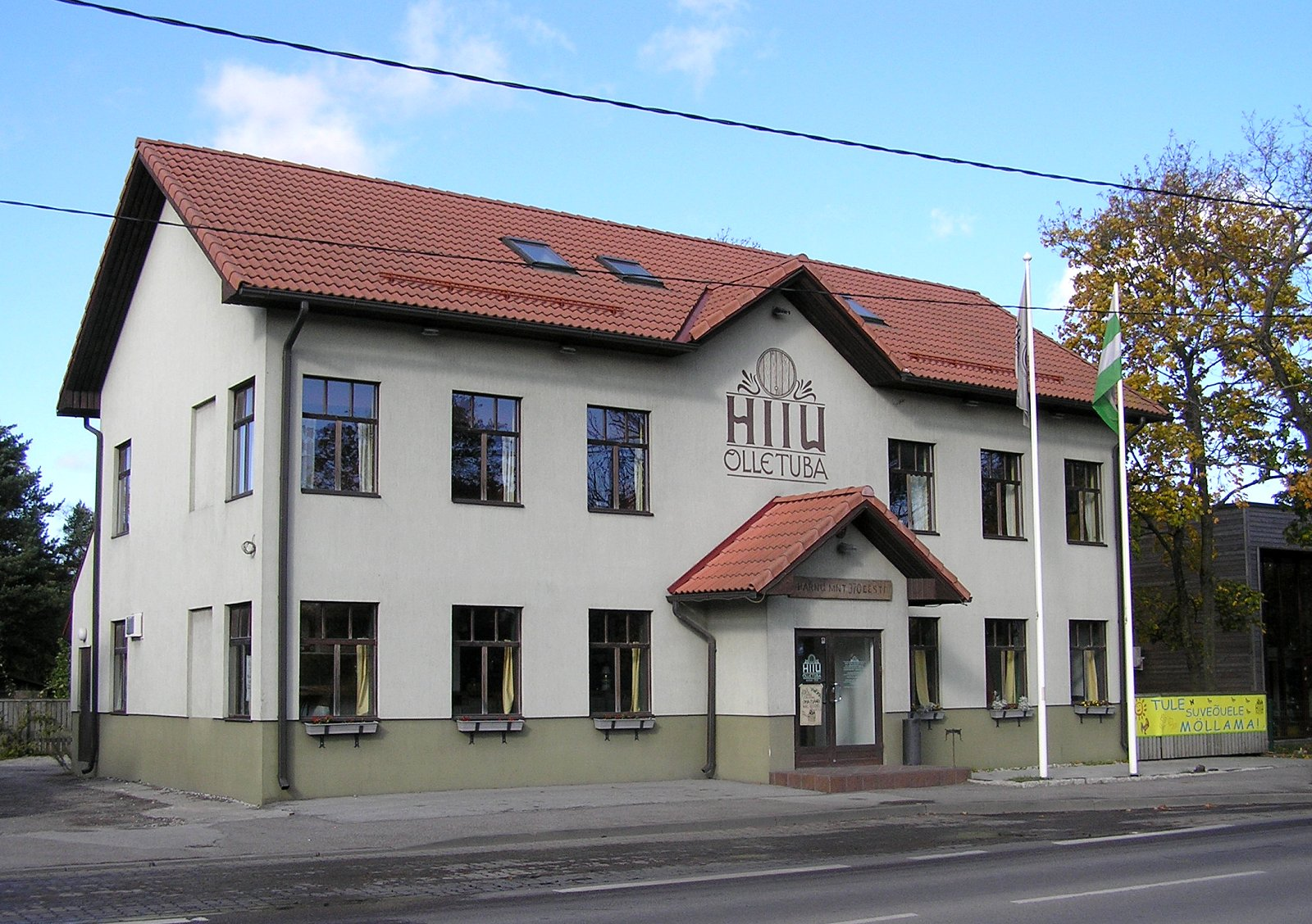 A pub in Tallinn